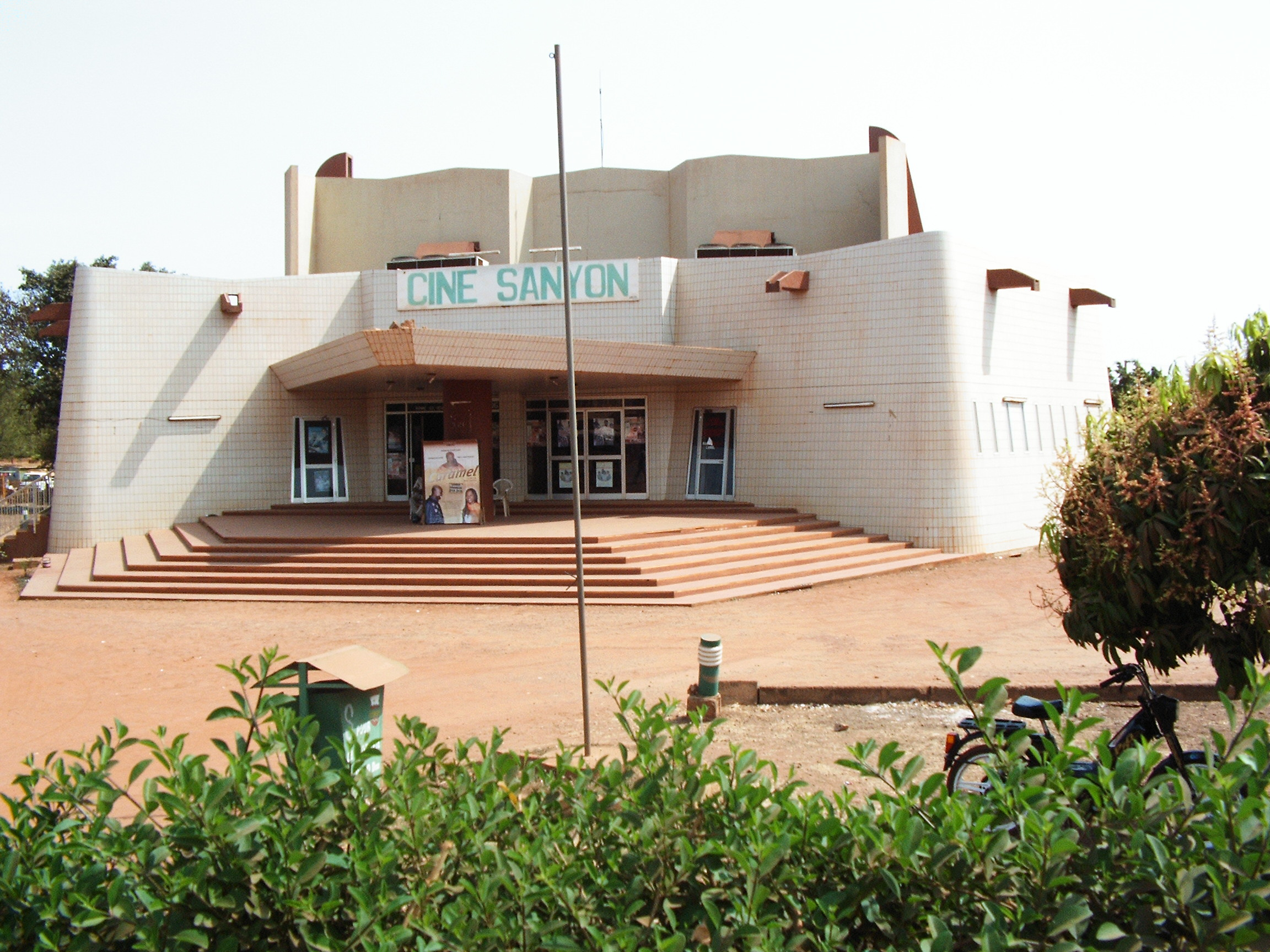 Cinema Sanyon in Bobo-Dioulasso, Burkina Faso picture taken by author